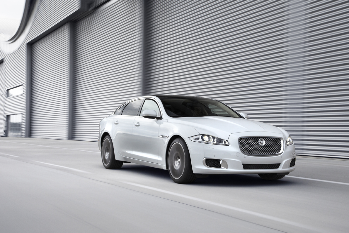 The flagship Jaguar XJ ushered in a new interpretation of the company's established reputation for dramatic design and - with its lightweight aluminium architecture - responsible performance. Now, the XJ Ultimate focuses on two further Jaguar hallmarks: innovation and luxury, extending the model's emotive appeal.